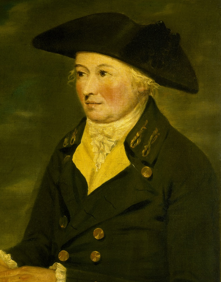 Oil on canvas painting of Captain Nathaniel Portlock RN, Commander of the Poole and Dartmouth Sea Fencibles during the French Revolutionary Wars. Part of a larger painting depicting Portlock in the West Indies. Subject wears the hat and seagoing uniform of a Captain, RN.